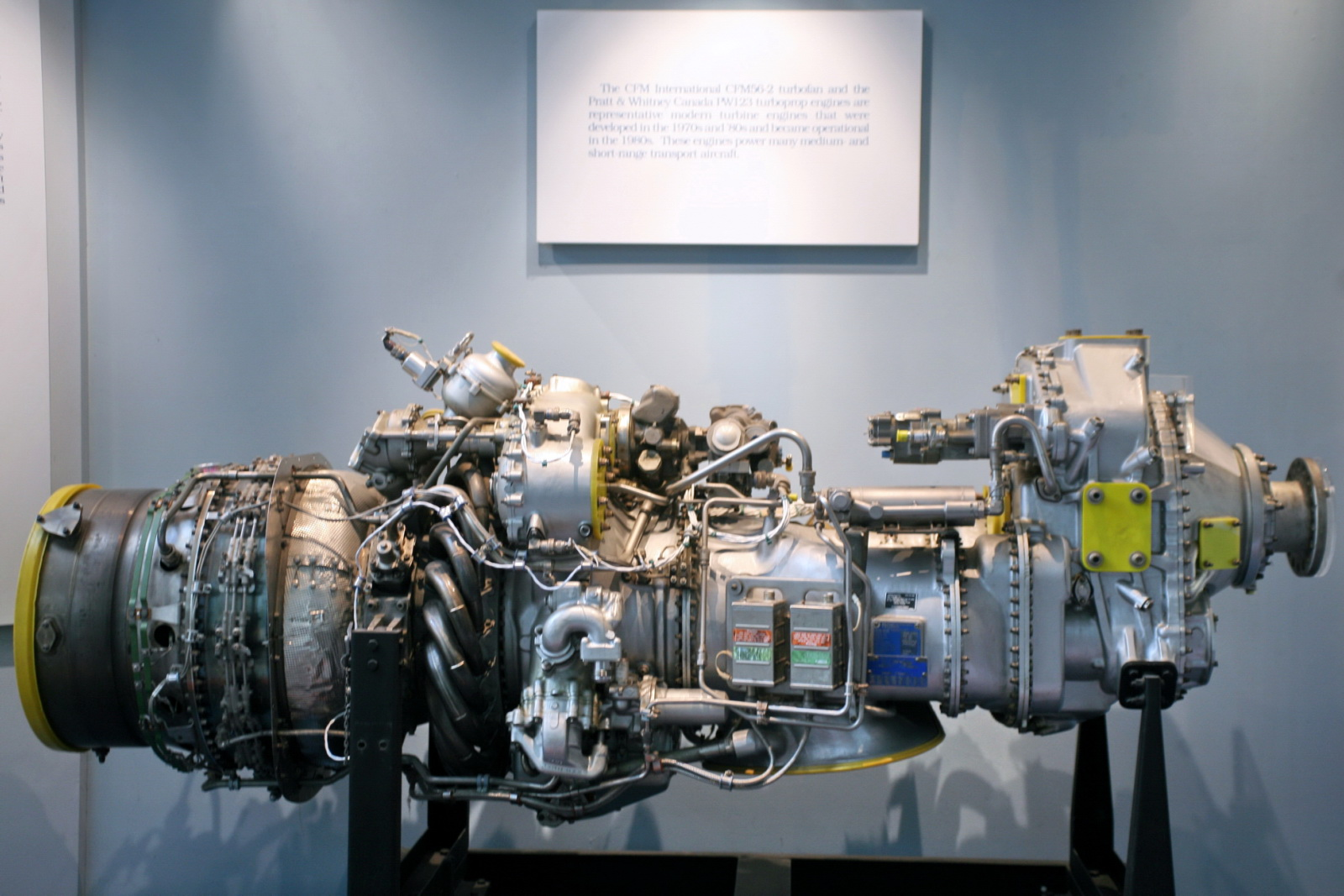 This model PW123 was manufactured by Pratt & Whitney Canada in Longueuil, Quebec. This type of engine is used on the de Havilland Dash 8 Series 300